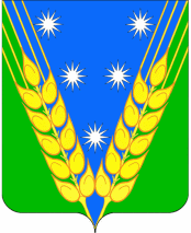 Coat of arms of Novoselskoye municipality, Novokubansk Raion, Krasnodar Krai, RUssia